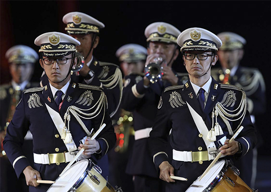 FESTIVAL SPASS TOWER 2019.